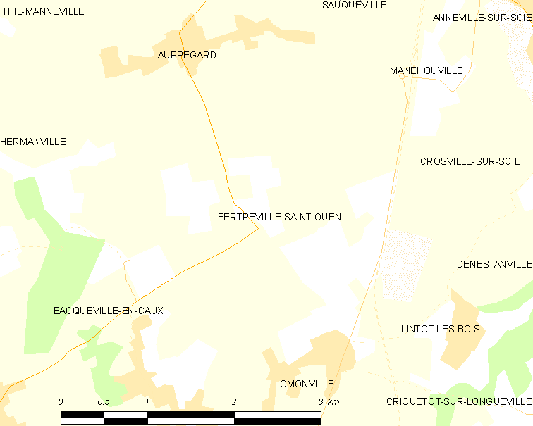 Map of French municipality Bertreville-Saint-Ouen